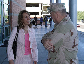 Congresswoman Gabrielle Giffords talking to Admiral Thad Allen, Commandant of the Coast Guard, outside McClelland Hall, University of Arizona, Tucson